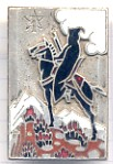 Description insigne du 1er RSMDate before 1940 This image shows a flag, a coat of arms, a seal or some other official insignia. The use of such symbols is restricted in many countries. These restrictions are independent of the copyright status. libre de droits insigne du 1er RSM